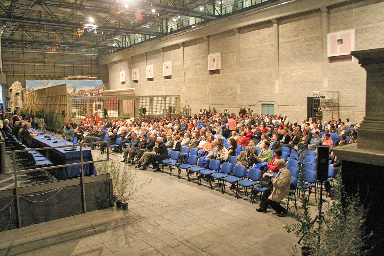 XIII TICCIH Congress' opening, in cinematographic studios of Papigno (Terni) - photo of Alberto Mirimao (Terni, 14 settembre 2006)